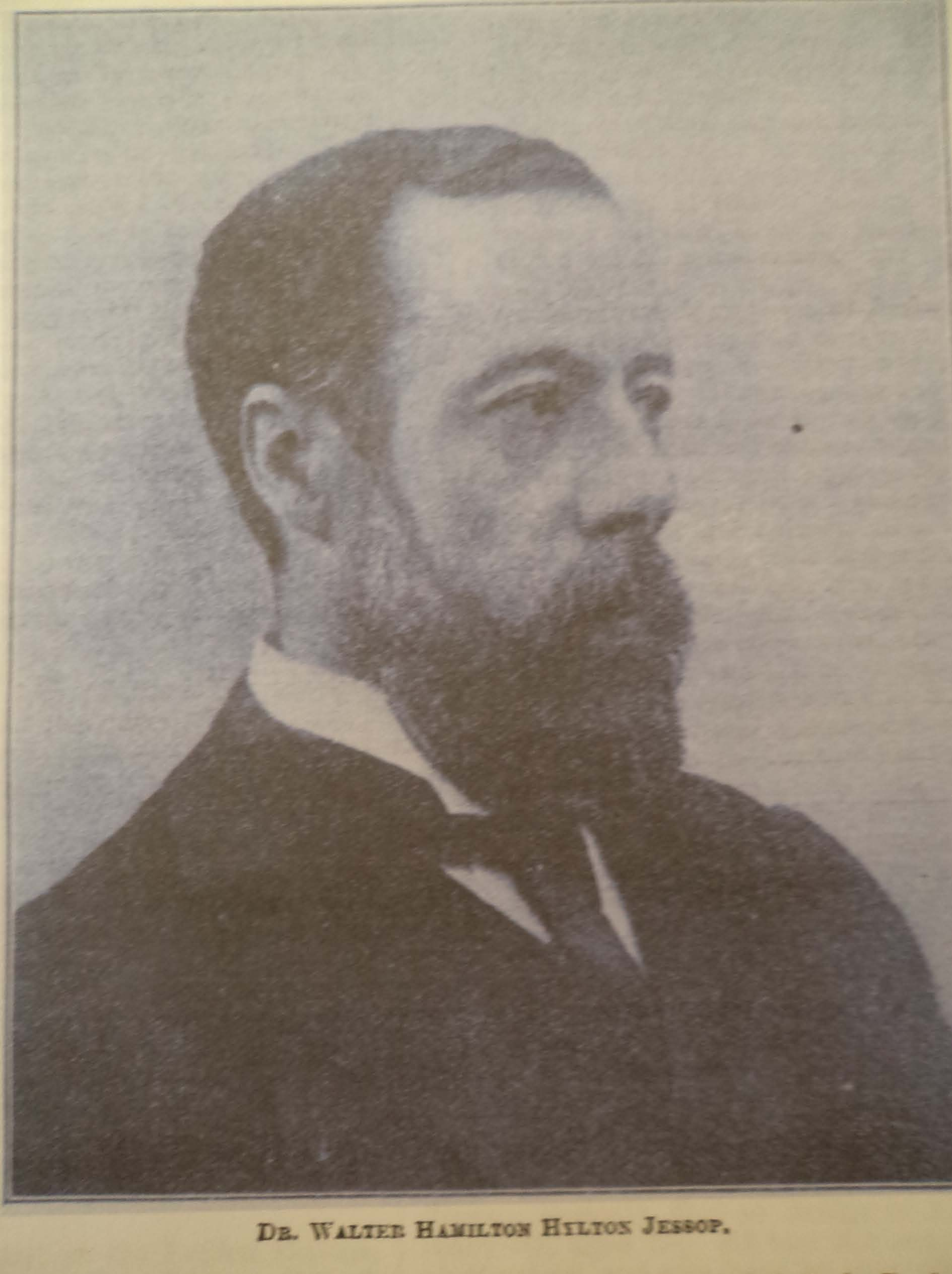 Anglais